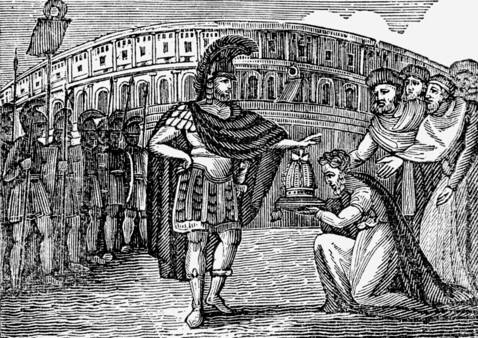 Byzantine general Belisarius refusing the crown of Italy offered by the Goths in 540 CE. Woodcut published New York 1830.